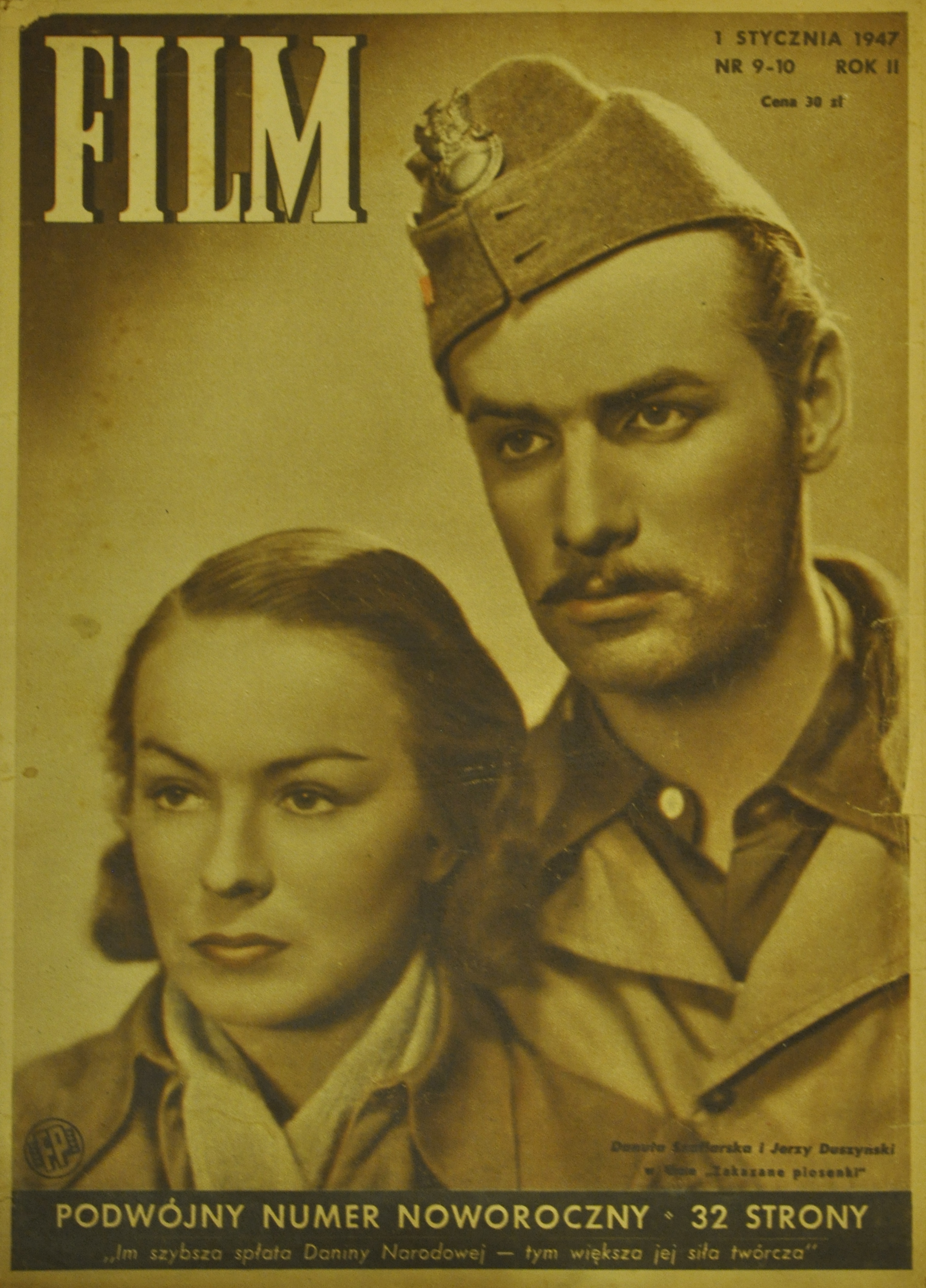 Front cover of Polish magazine Film Nr. 9-10 with Danuta Szaflarska and Jerzy Duszyński